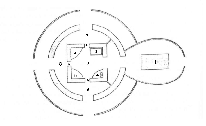 Synagogue structure according to Beta Israel community in Ethiopia.